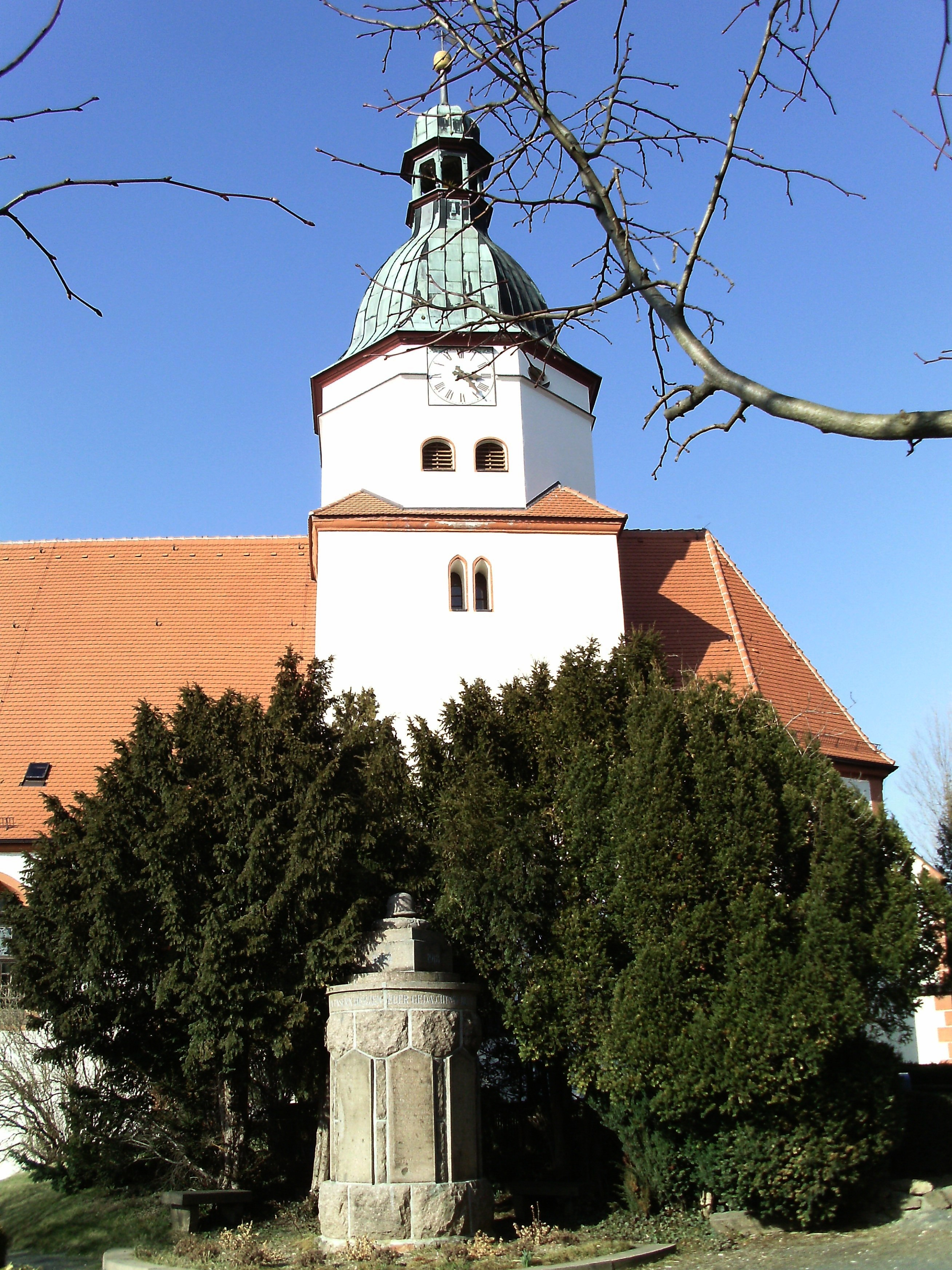 Döben church (Grimma, Leipzig district, Saxony)